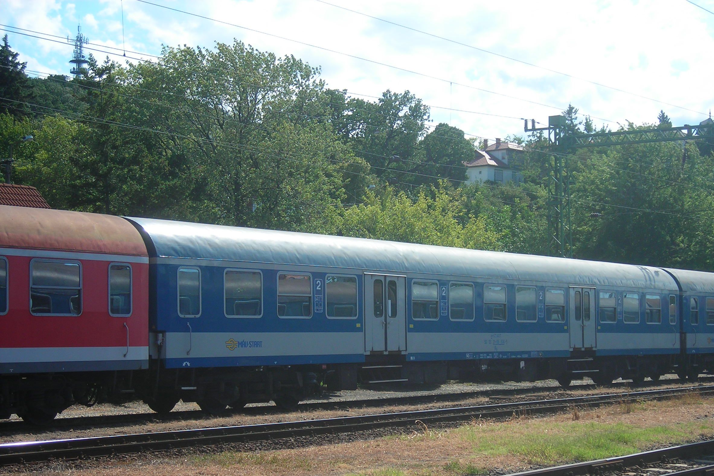 Halberstadt's passanger coaches in Fonyód in Hungary